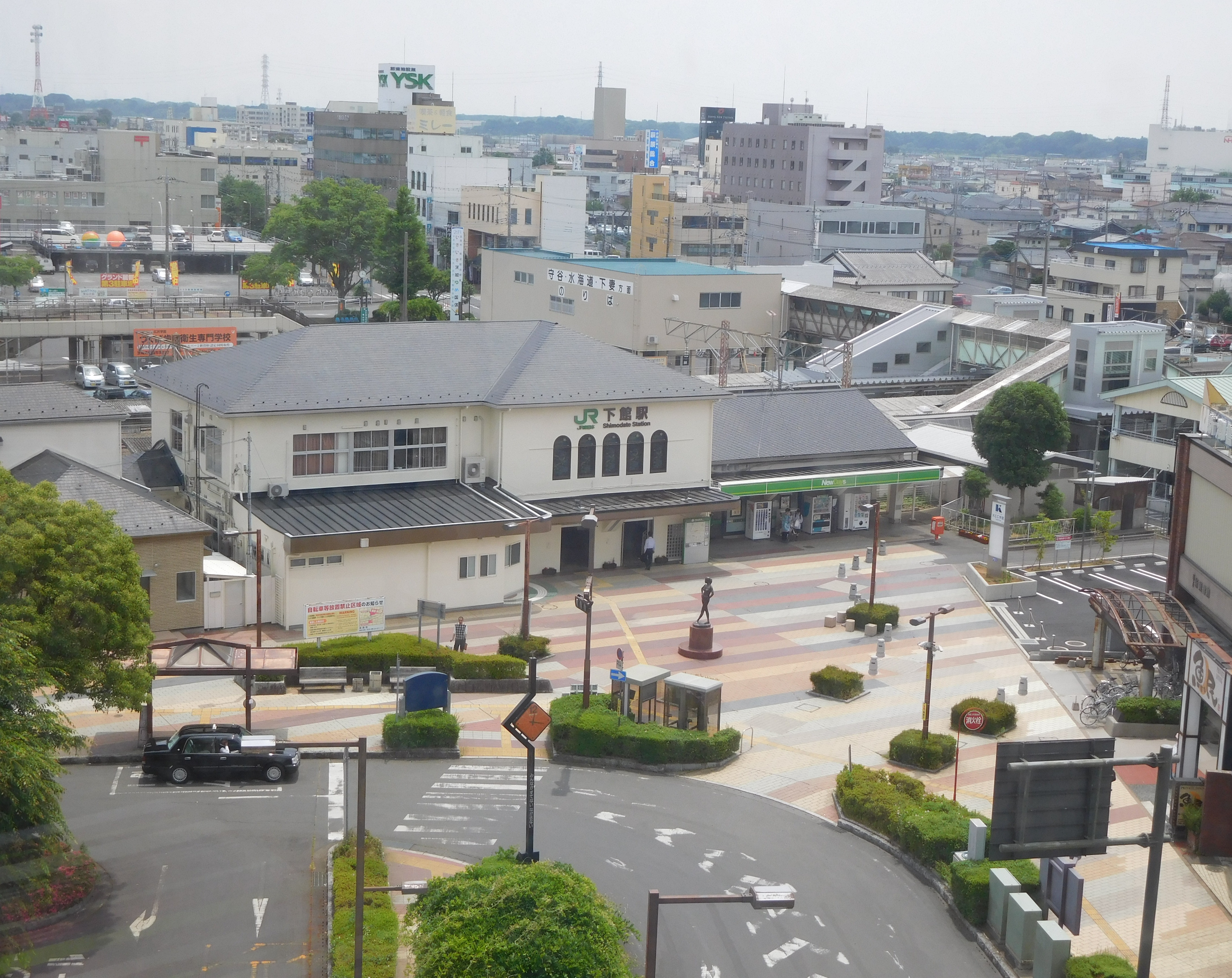 This is Shimodate station in Chikusei, Ibaraki, Japan. This was taken from Shimodate SPICA building.